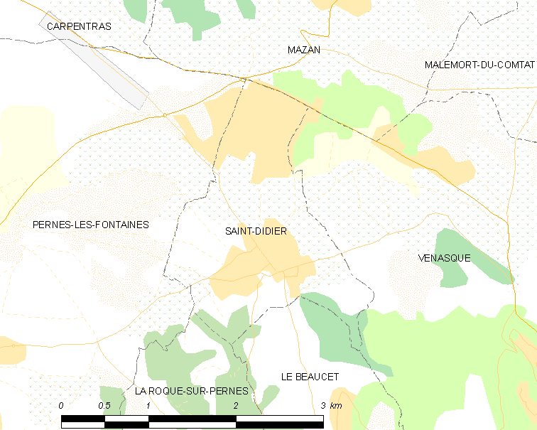 Map of French municipality Saint-Didier